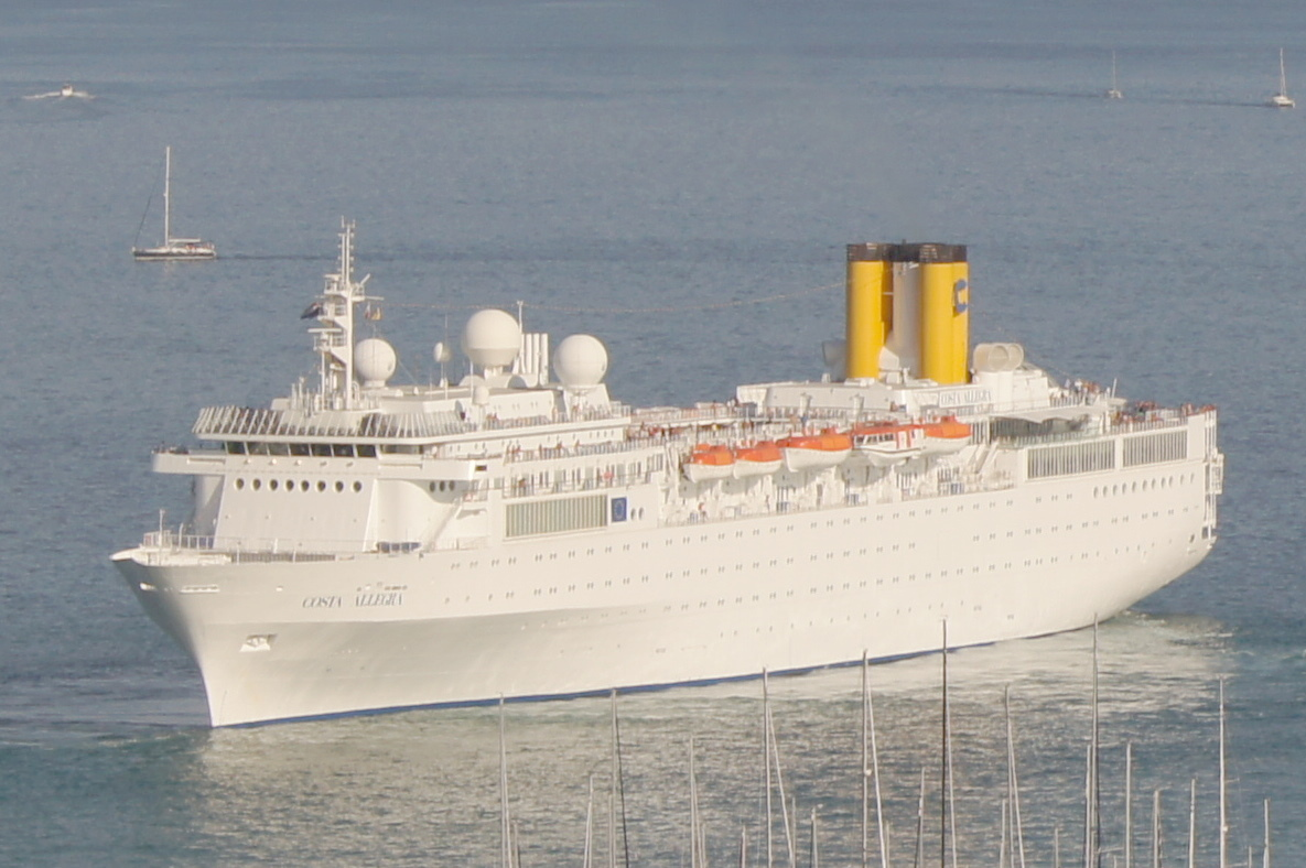 Costa Allegra in Split on 2011-07-08